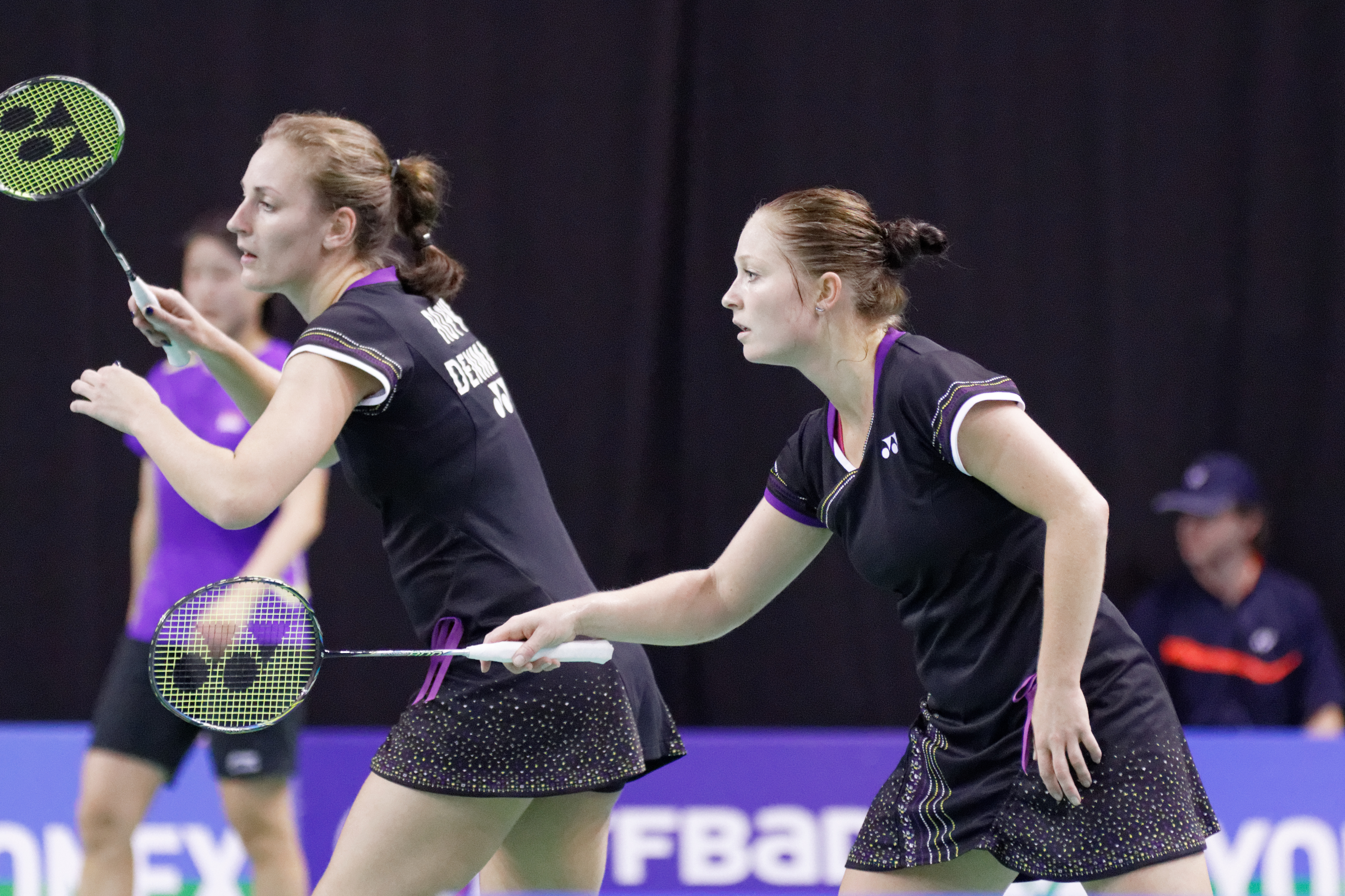 2013 French open. Women's doubles eightfinal. Line Damkjær Kruse and Marie Røpke vs Jang Ye-na and Kim So-young.